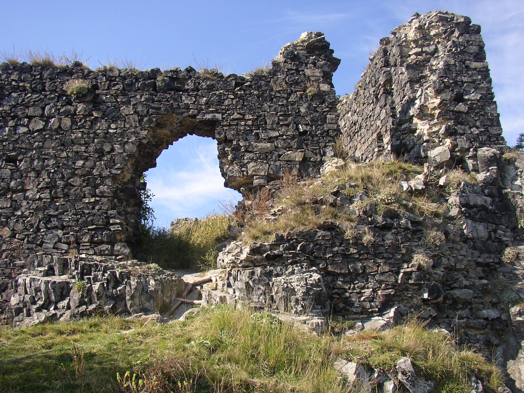 Castle ruin of Oltářík (Hrádek) in České středohoří Mts.. Exterior of the tower - eastern side.